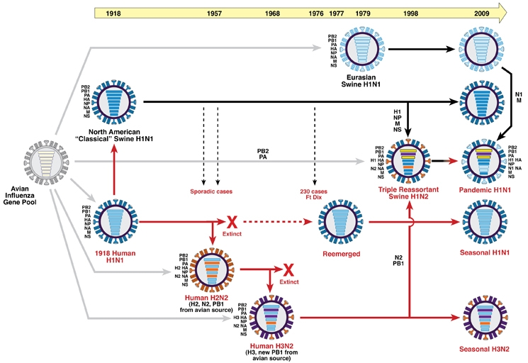 Red arrows indicate human influenza virus lineages, black arrows swine influenza virus lineages, and gray arrows exportation of one or more genes from the avian influenza A virus gene pool. Horizontal bars shown inside the virus represent each of the eight virus genes, abbreviated PB2, PB1, PA, HA, NP, NA, M and NS. Credit: NIAID